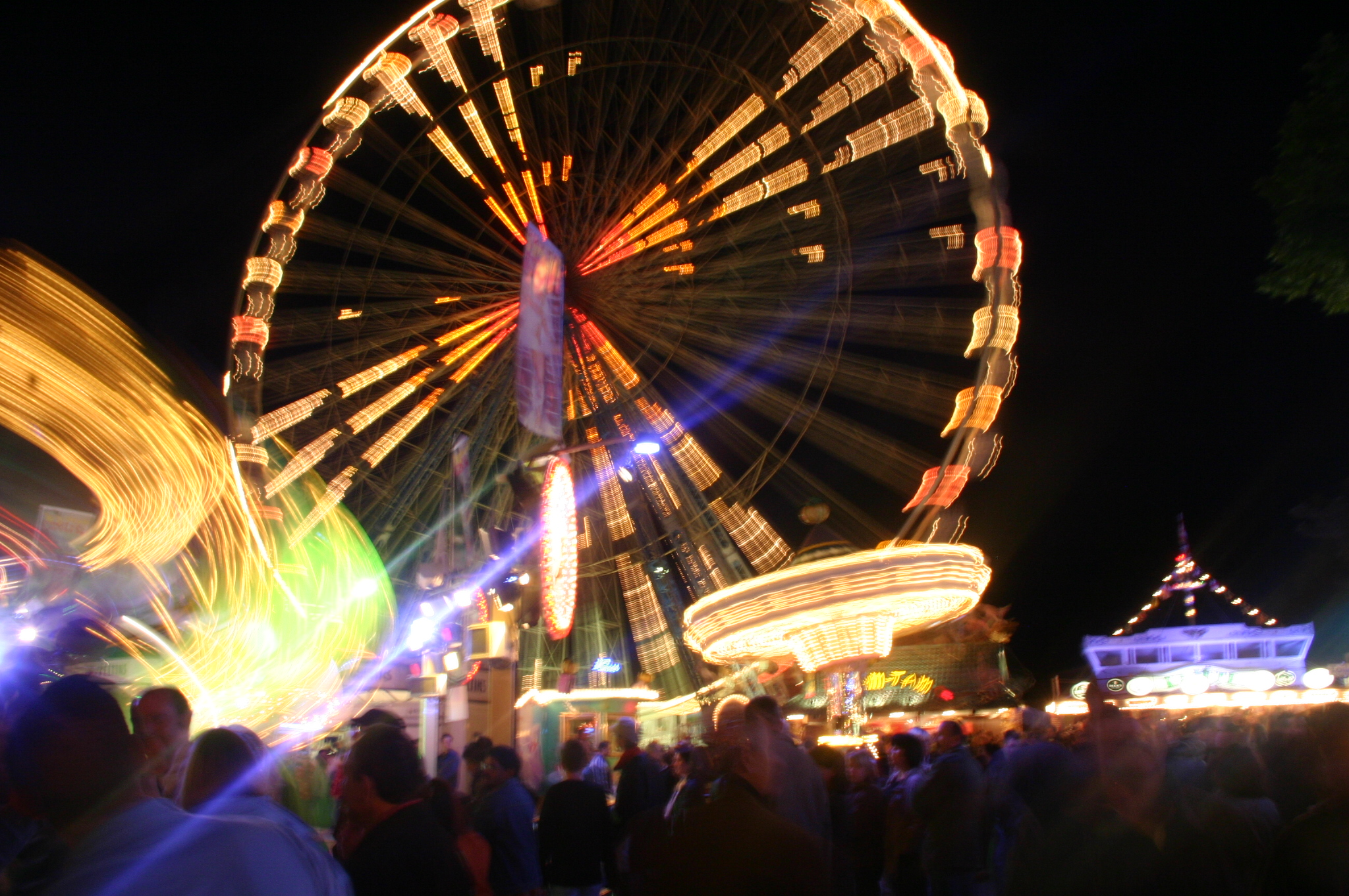 Hüstener Kirmes